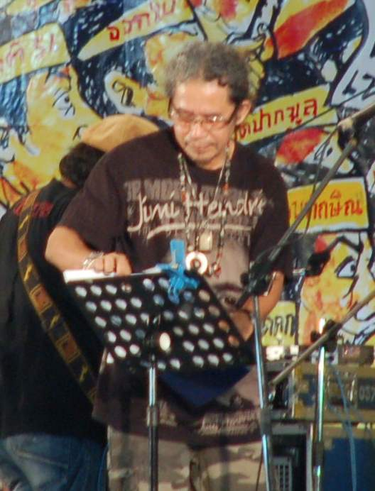 Surachai Janthimathorn (หงา ฅาราวาน) on stage in a concert at Makkawan bridge, cropped from original image